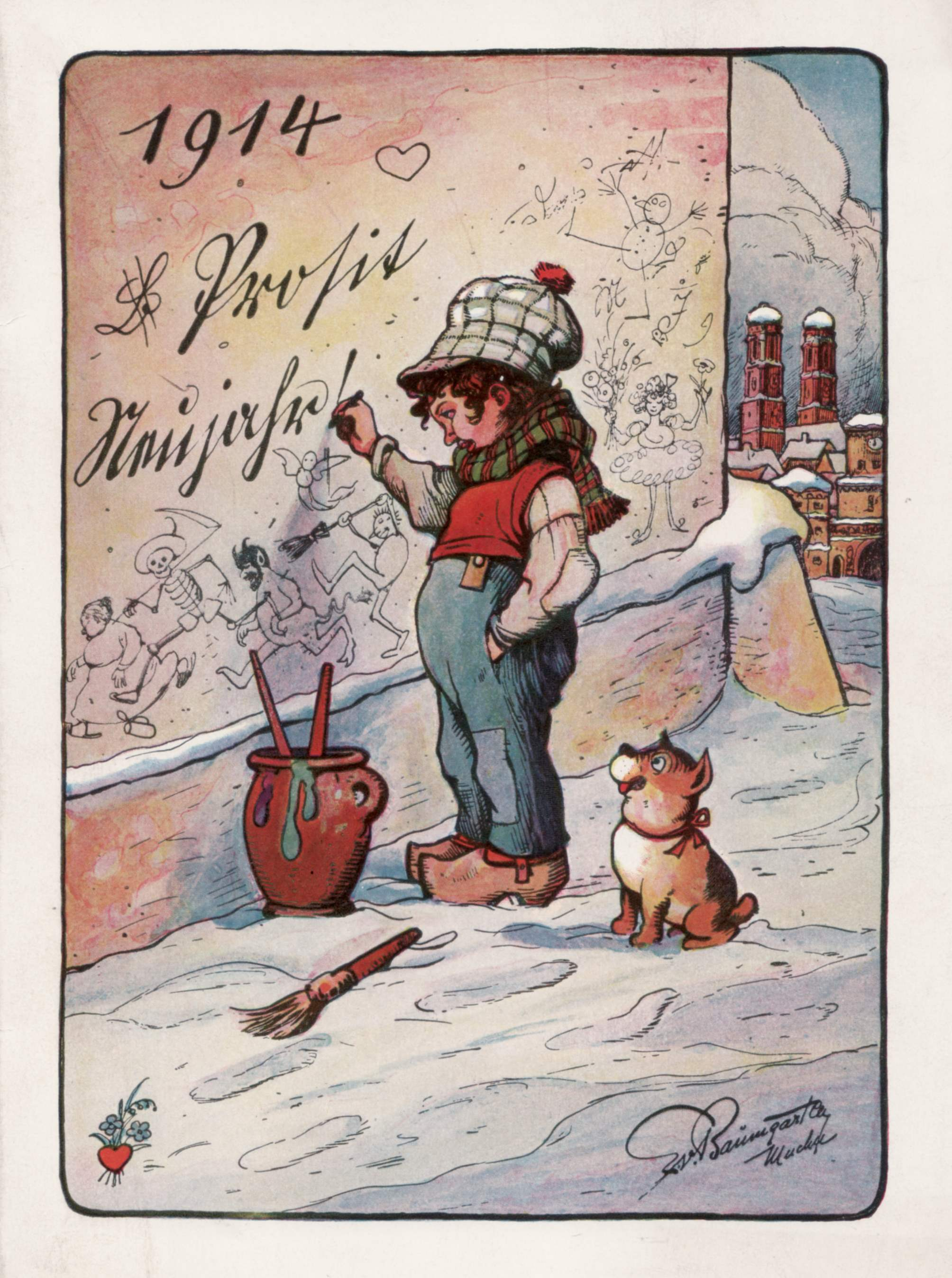 Personal New Year's greetings by Eugen v. Baumgarten